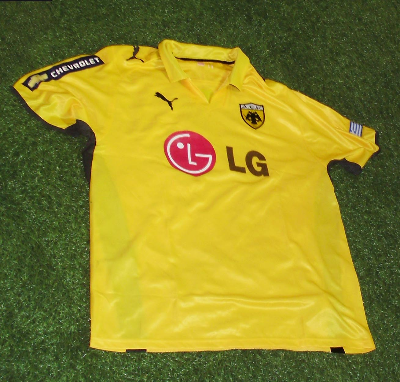 AEK_Shirt_2008-2009 from Athens Sports Show 2008